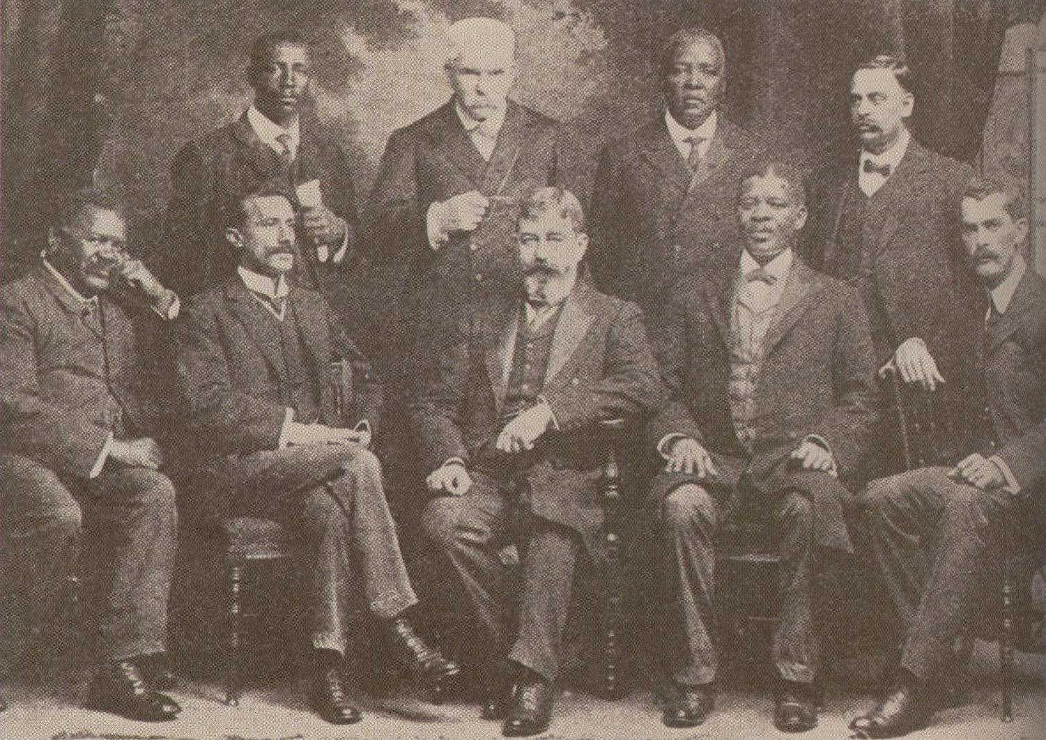 Delegation of prominent Cape politicians to protest against the racist provisions of the draft South Africa Act. Seated from left are John Tengo Jabavu, A Abdurahman, former PM William Schreiner, Walter Rubusana and Matt Fredericks. Standing at the back Thomas Makipela, J Gerrans, Daniel Dwanya and DJ Lenders.